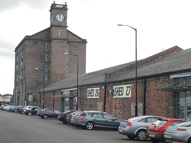 Camperdown Street Warehouses along the Victoria Dock.